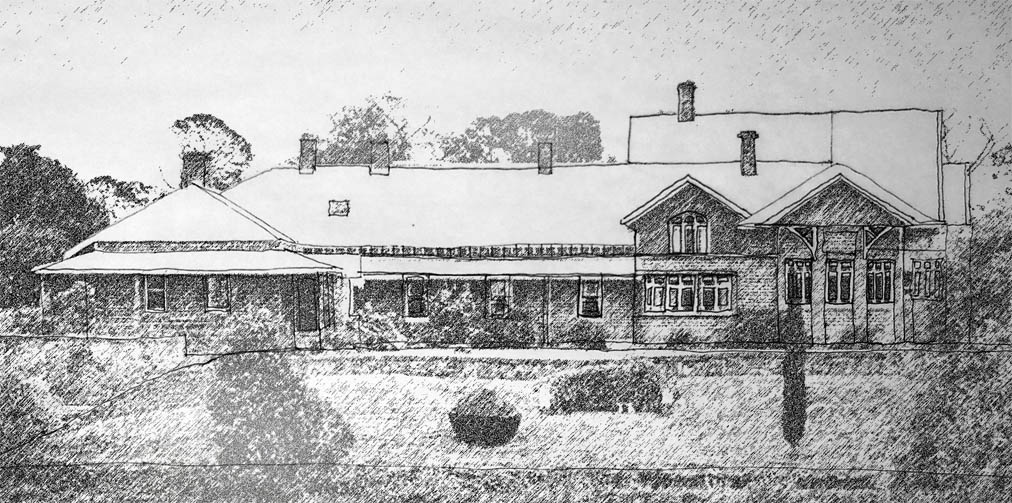 Sketch of Purrumbete, 1898